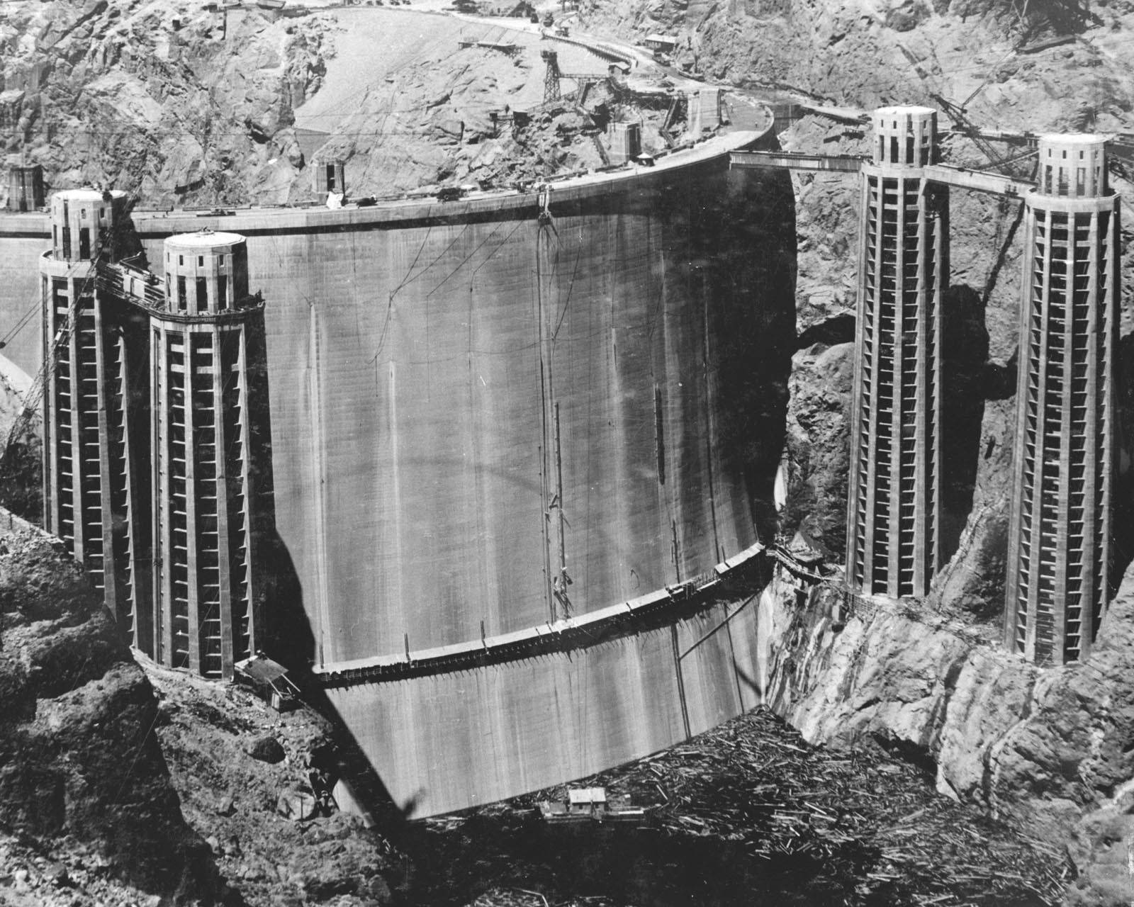 The rarely-seen upstream face of Hoover Dam, May 1935